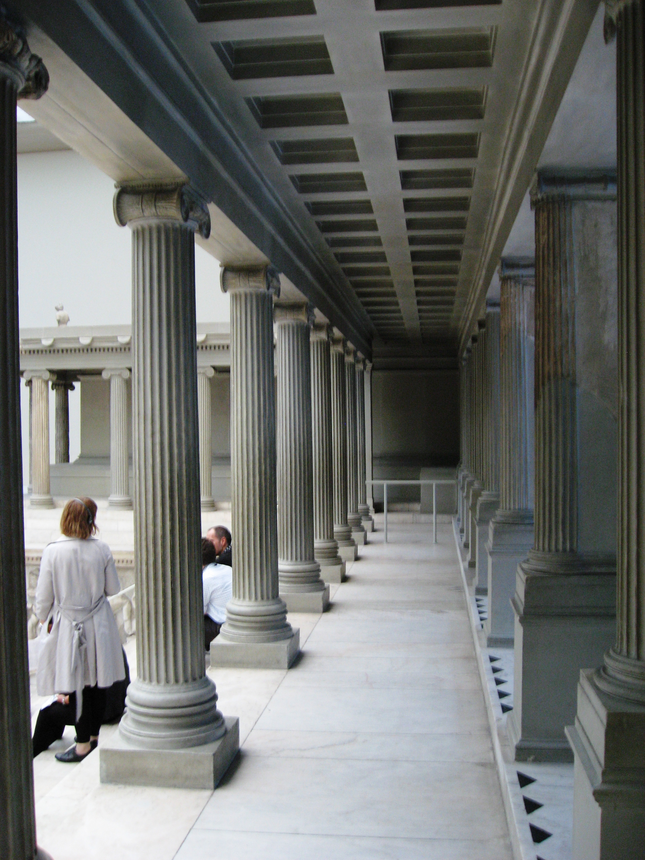 Detail of the Pergamon Altar upper part and columns